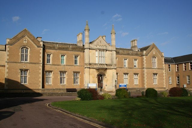 Stamford & Rutland Hospital. The earliest part of Stamford hospital with gothic centrepiece by J.P.Gandy in 1826